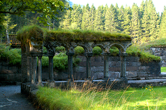 This is an image of Lysekloster, Os.